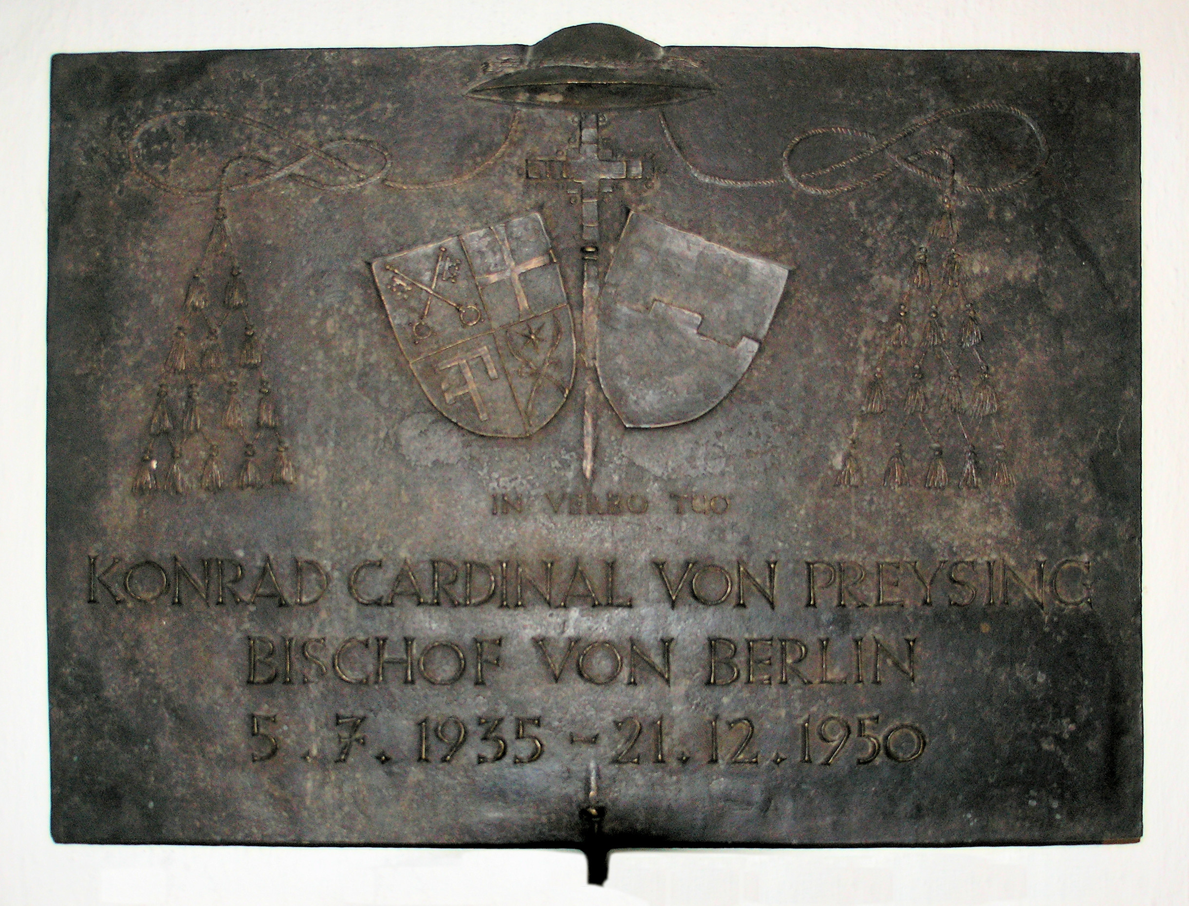 Grave marker for Konrad Graf von Preysing in St Hedwig Cathedral Berlin (Address: Hinter der Katholischen Kirche 3, Berlin-Mitte, Germany)